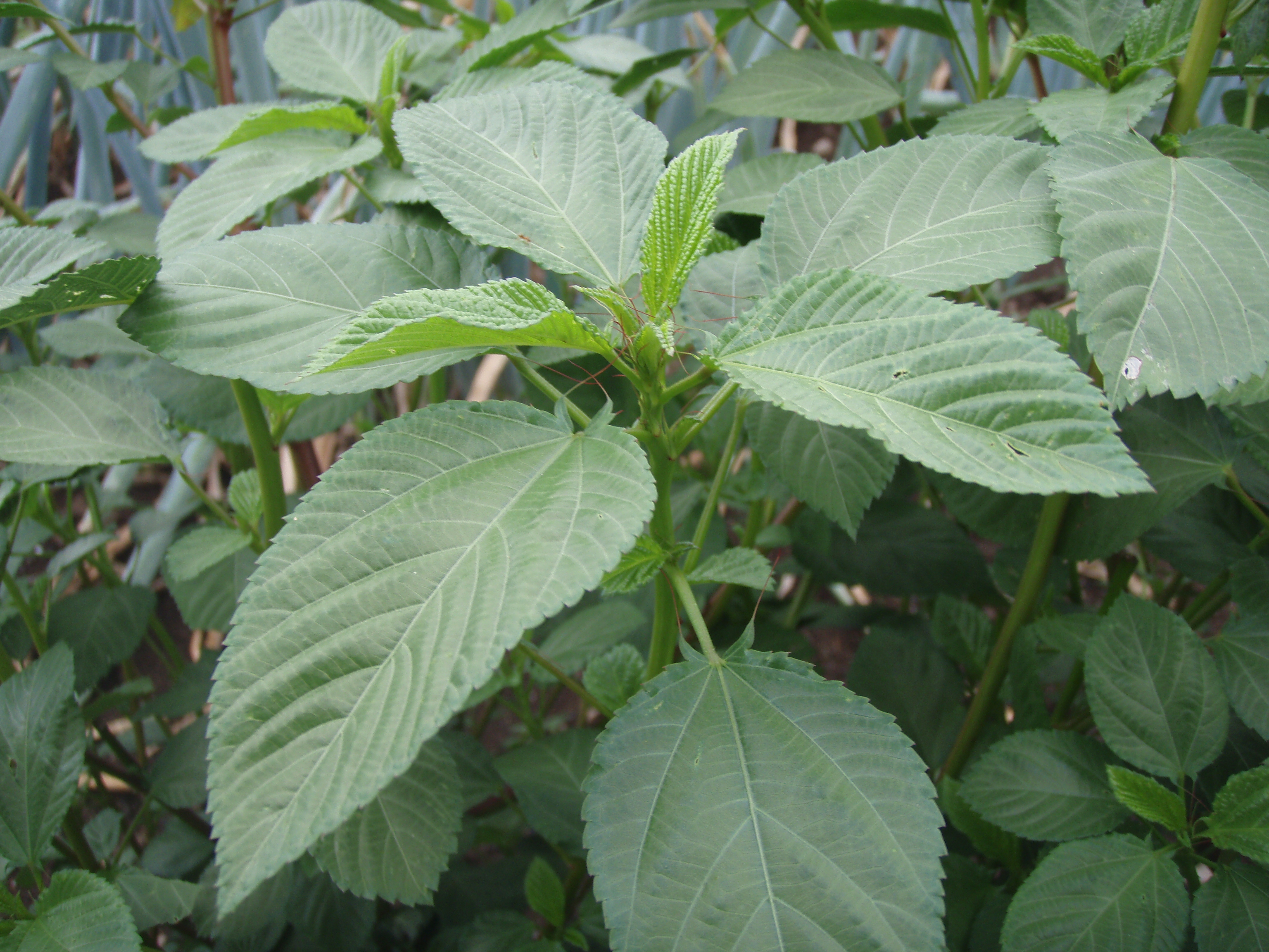 Corchorus